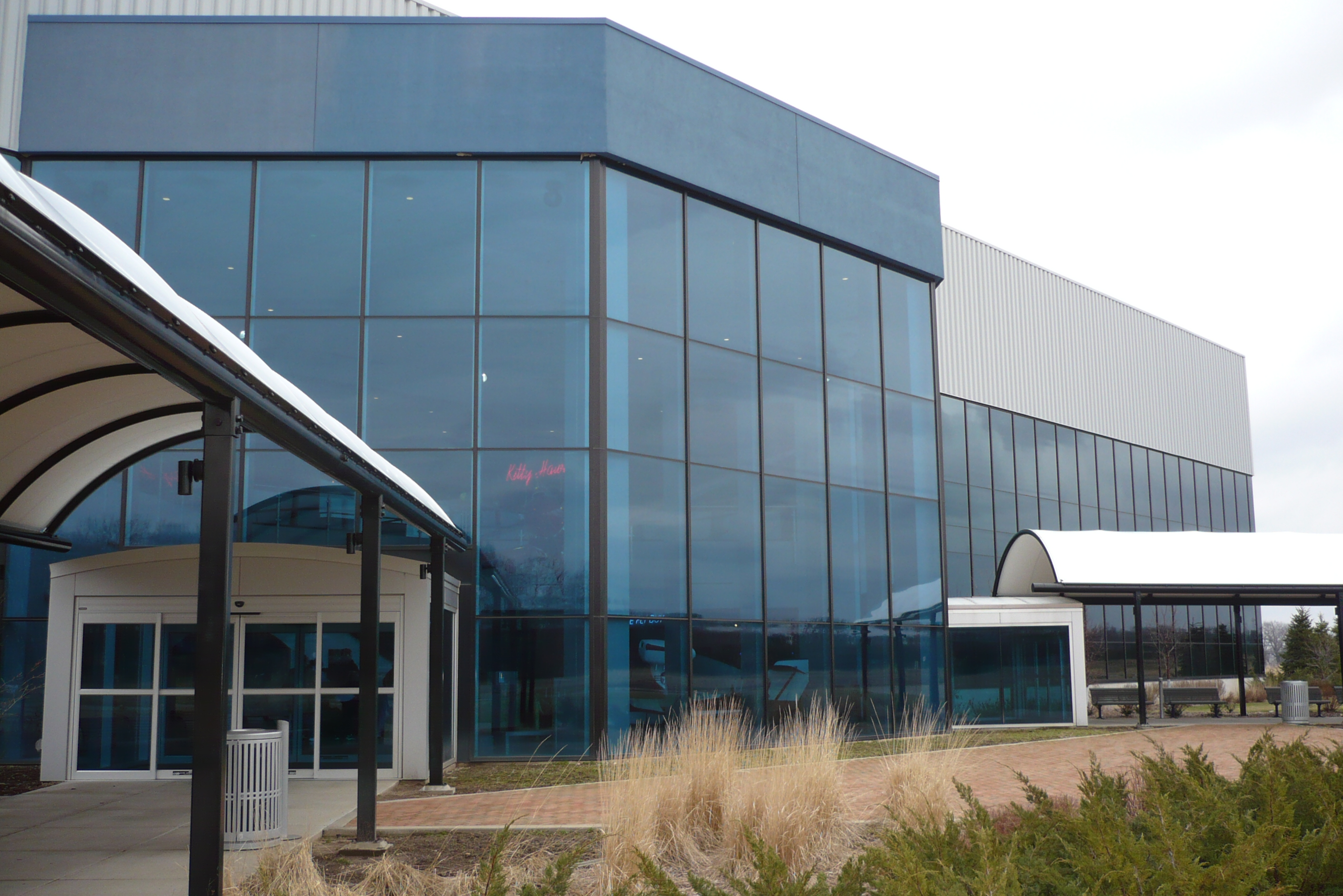 Main entrance of the Air Zoo in Kalamazoo, Michigan